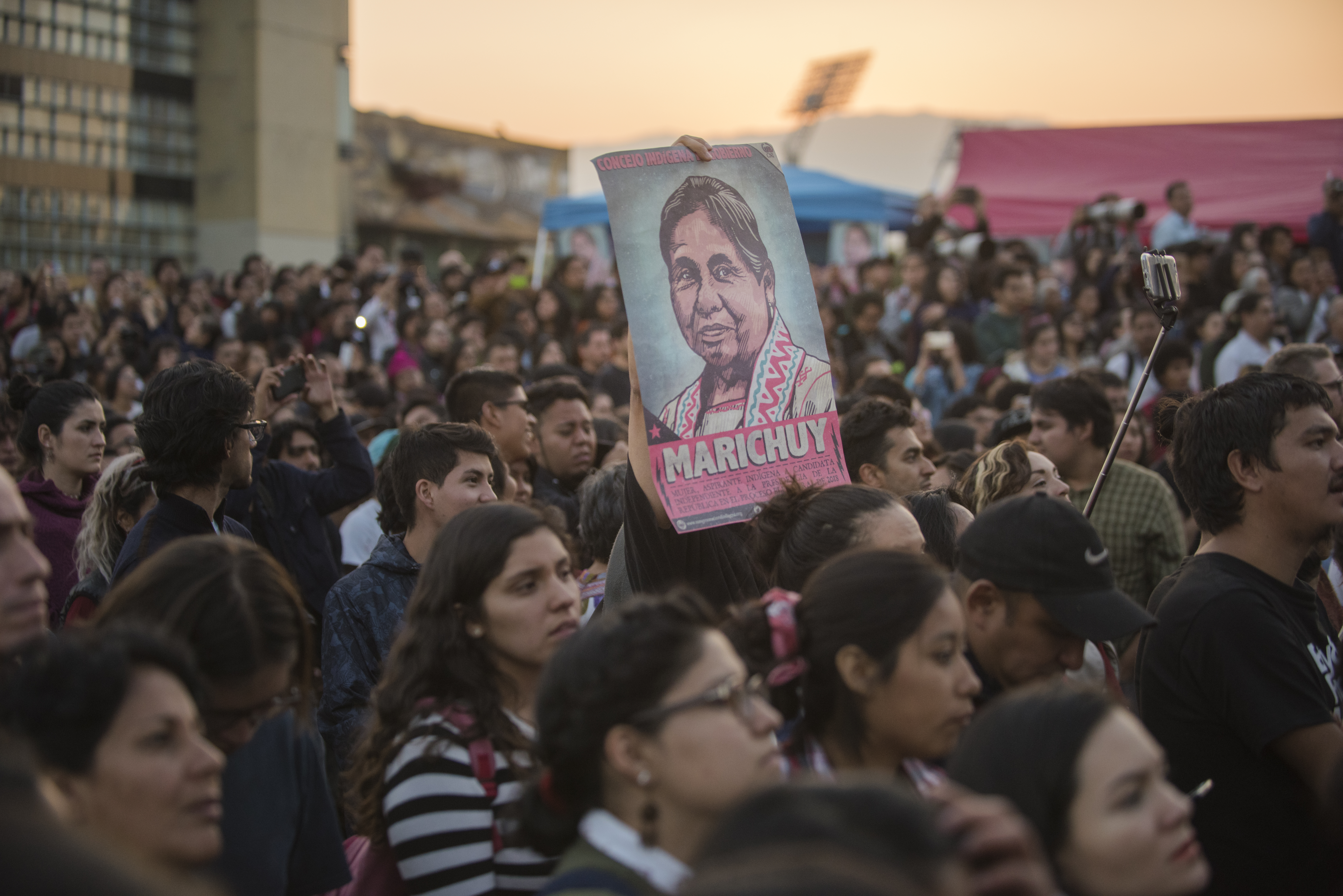 María de Jesús Patricio Martínez, Marichuy, organized a rally at UNAM's Ciudad Universitaria (CU) with copious attendace of students.